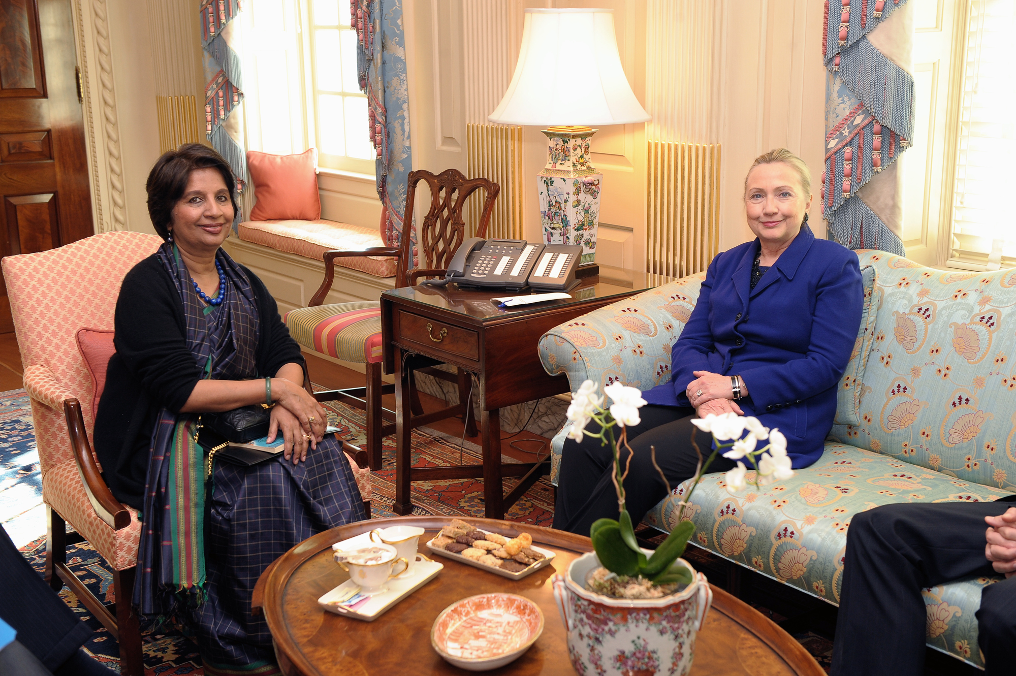 U.S. Secretary of State Hillary Rodham Clinton meets with Indian Ambassador to the U.S. Nirupama Rao at the U.S. Department of State in Washington, D.C., on January 25, 2012. [State Department photo/ Public Domain]